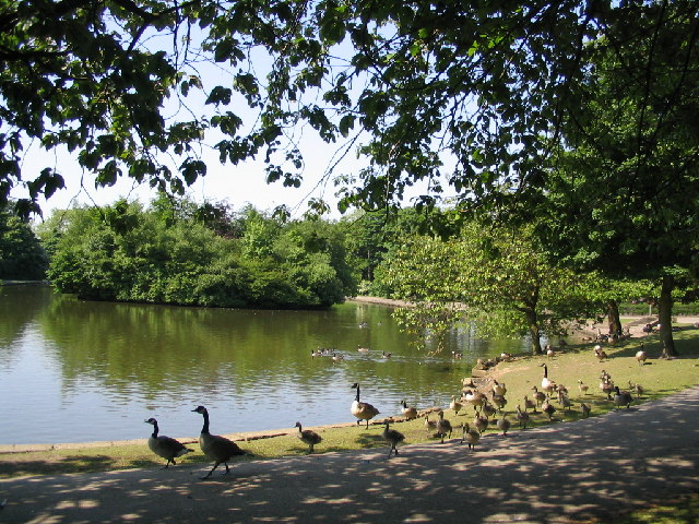 Wibsey Park Lake. Wibsey village is situated on a broad ridge at a height of 250 metres between Bradford and Halifax. The village is now a suburb of Bradford and it was mentioned in the domesday book. The community web site is